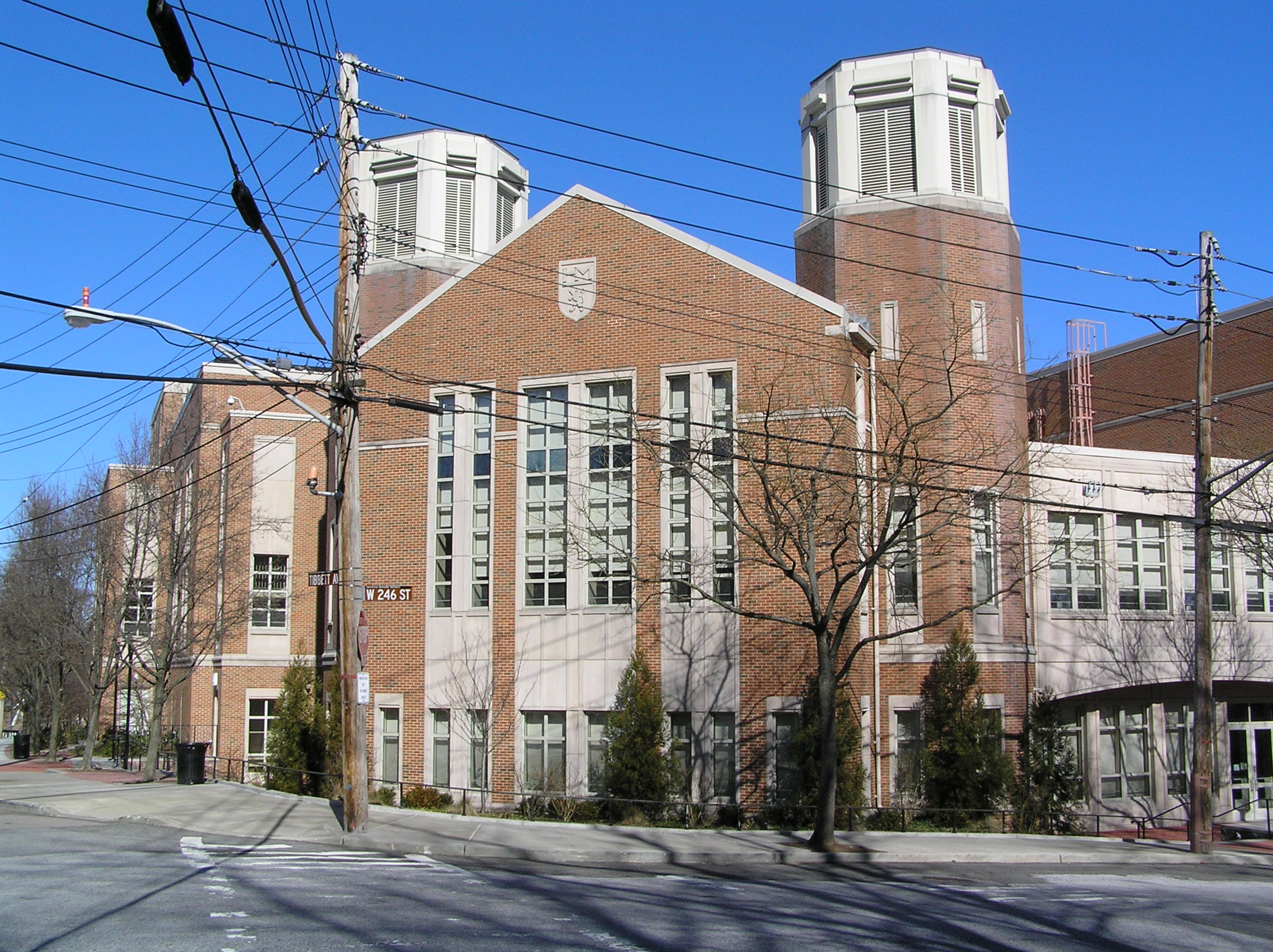 A photograph of the main entrance to the Horace Mann School in the Riverdale section of Bronx, NY